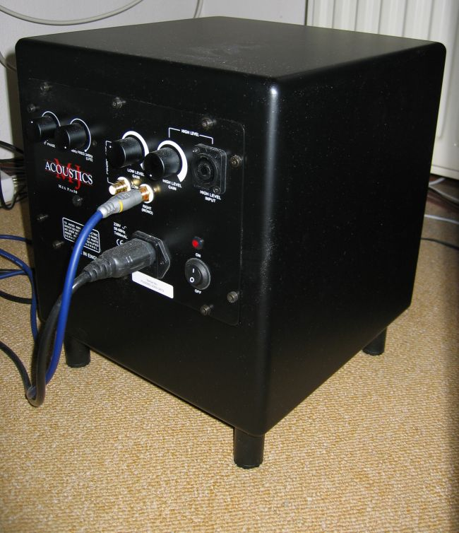 MJA Pro 50 subwoofer